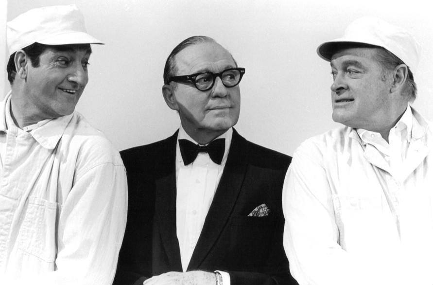 Publicity photo of Danny Thomas, Jack Benny and Bob Hope from a March 1968 Jack Benny special.